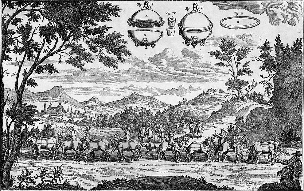 The Magdeburg Hemispheres